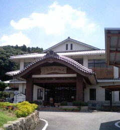 Mikawa_Hotspring. 熊本県の和水町にある三加和温泉, Nagomi.